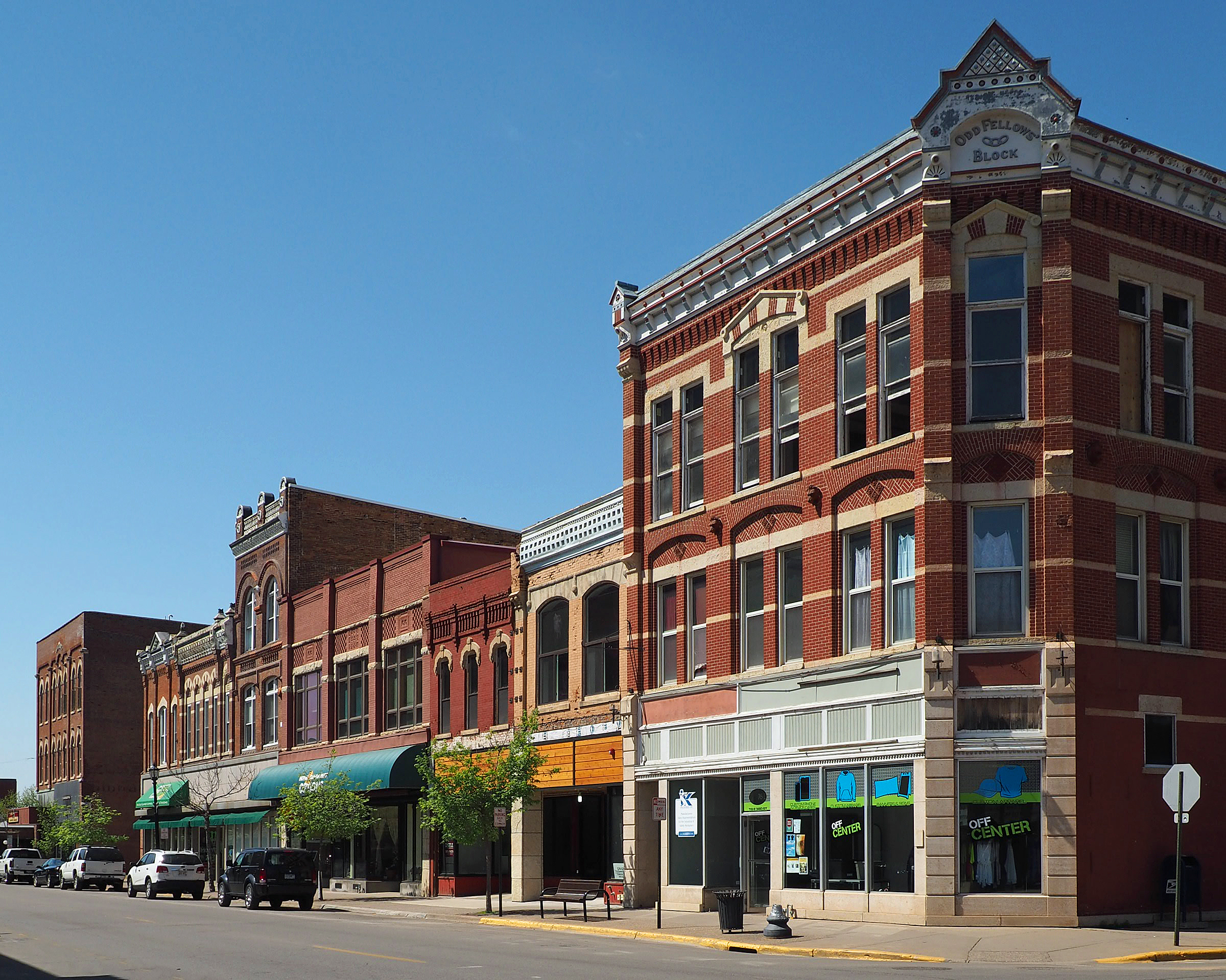 Winona Commercial Historic District, view looking northwest from the corner of 3rd and Lafayette Sts, Winona, Minnesota, USA.